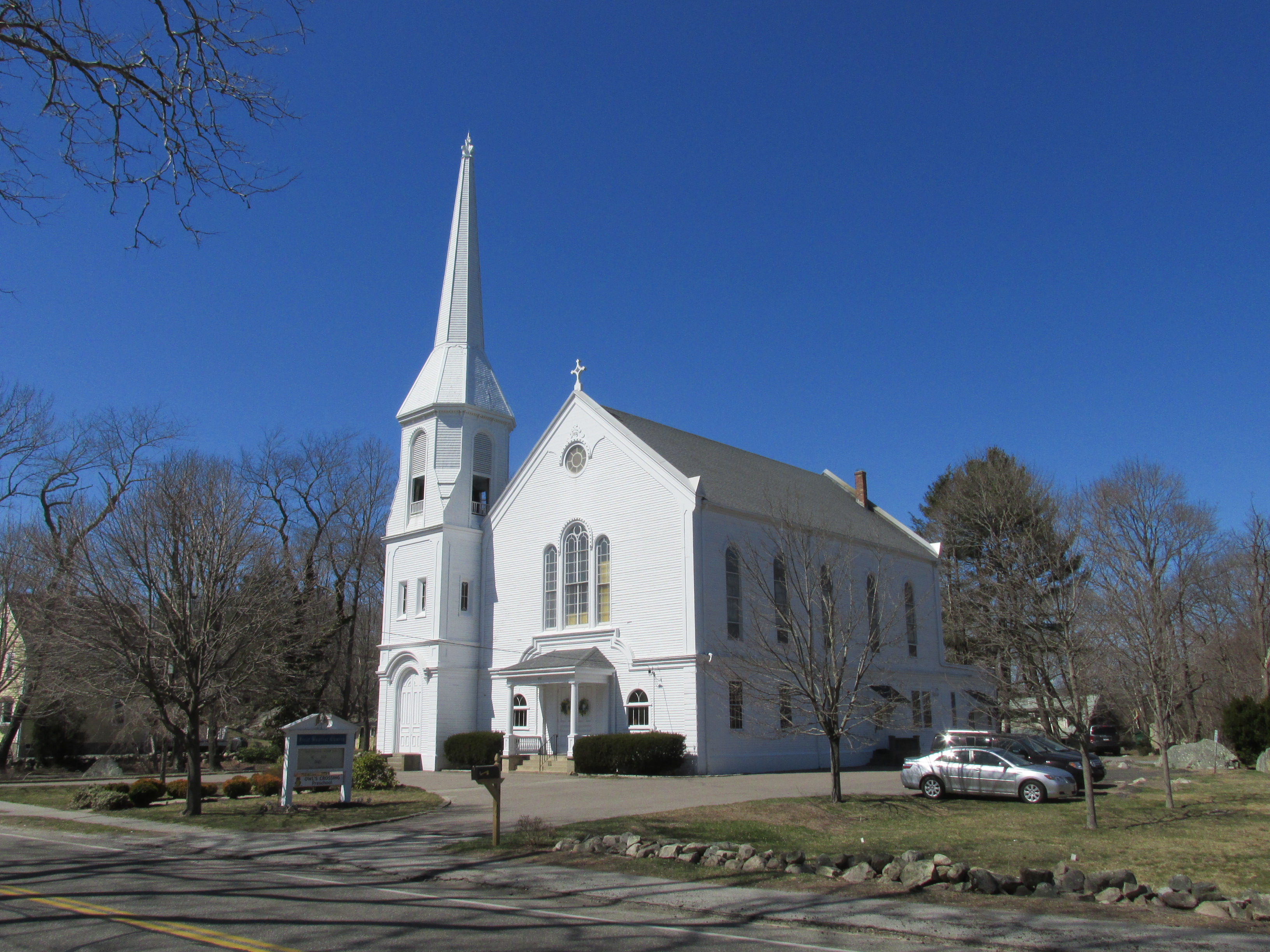 First Baptist Church, North Scituate Massachusetts.